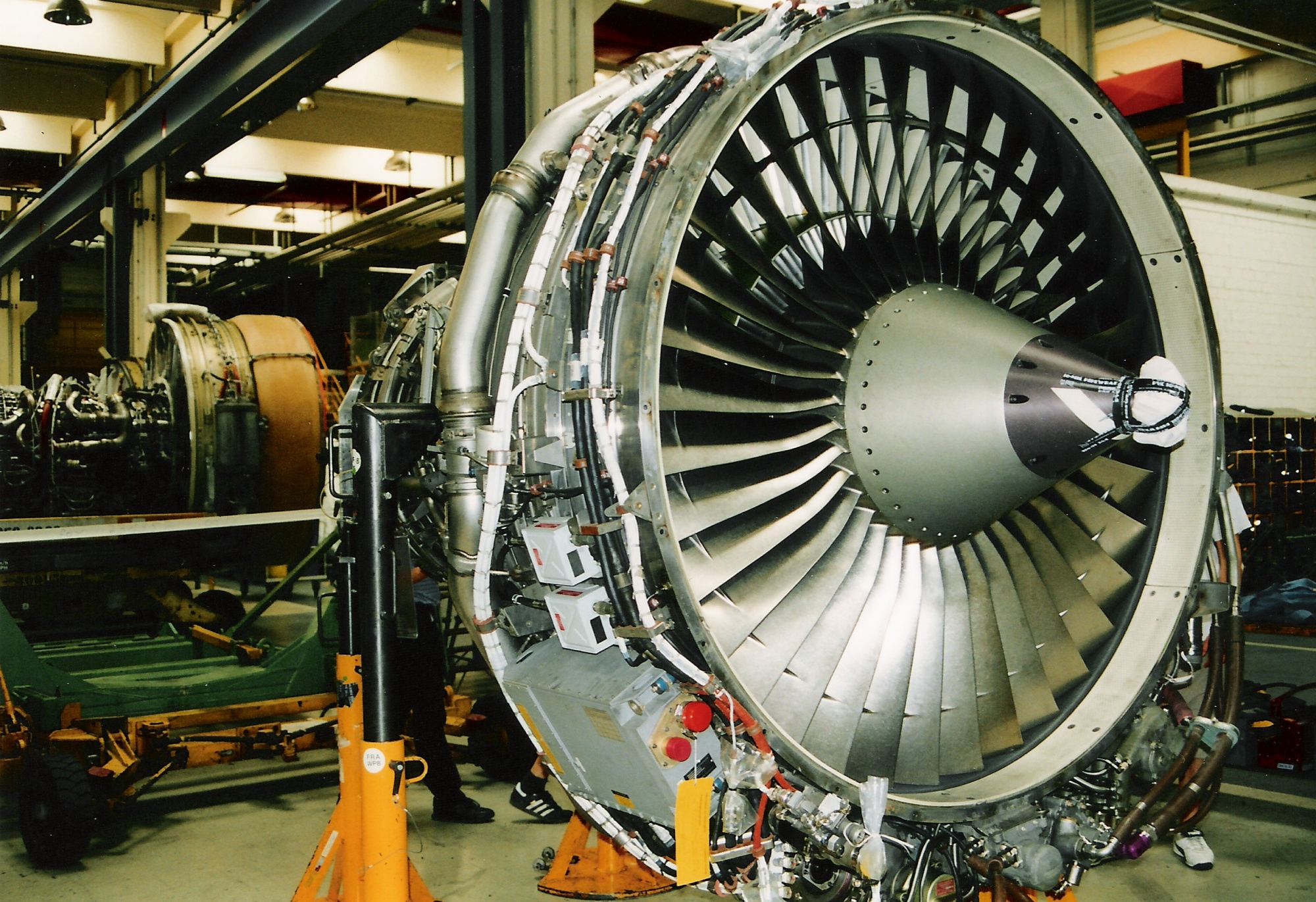 A CFM56 turbofan engine